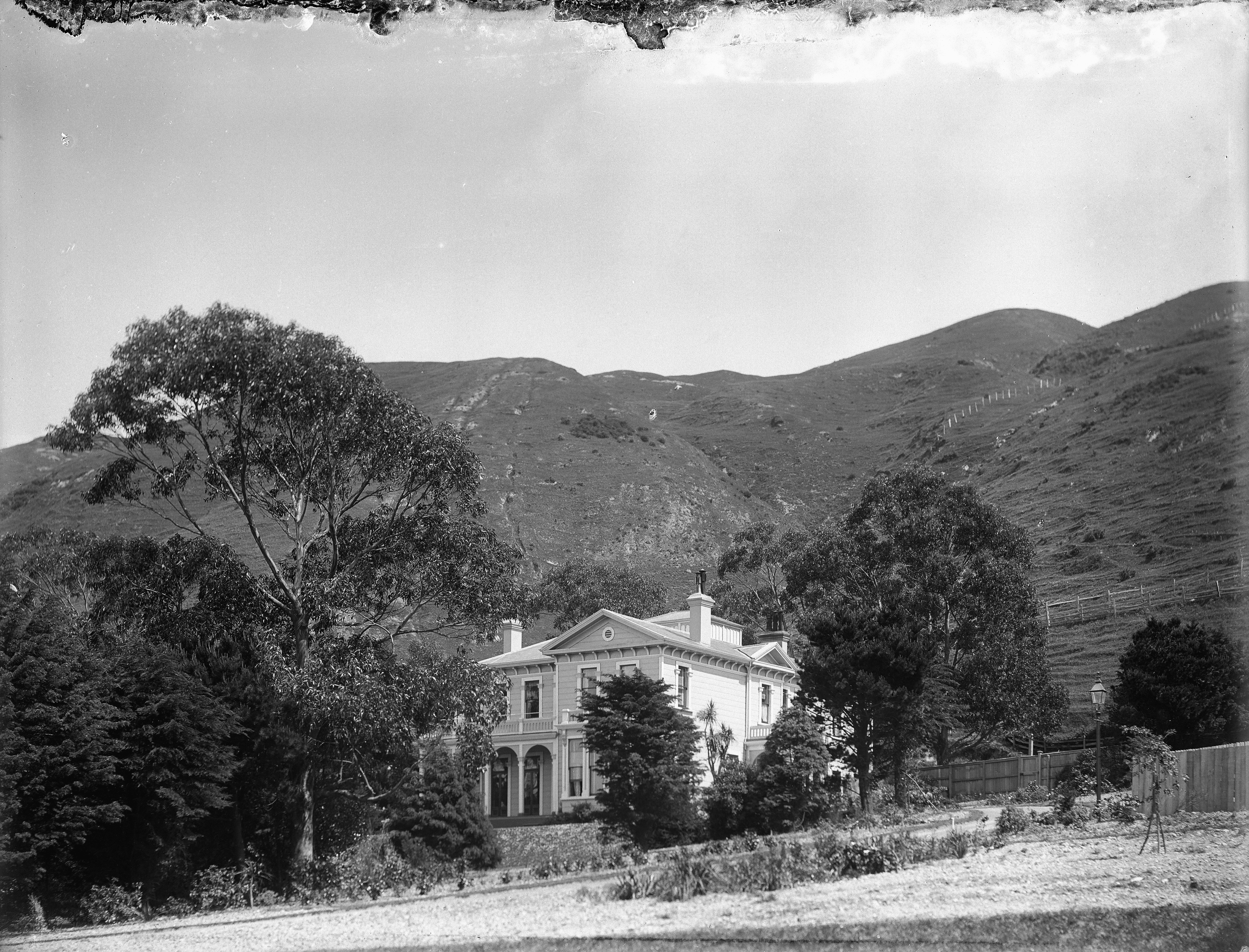 Residence of William Hort Levin (1845-1893) as seen from Tinakori Road about 1900-1910The house's carriage drive running from left to right is now Murrayfield Drive(?)